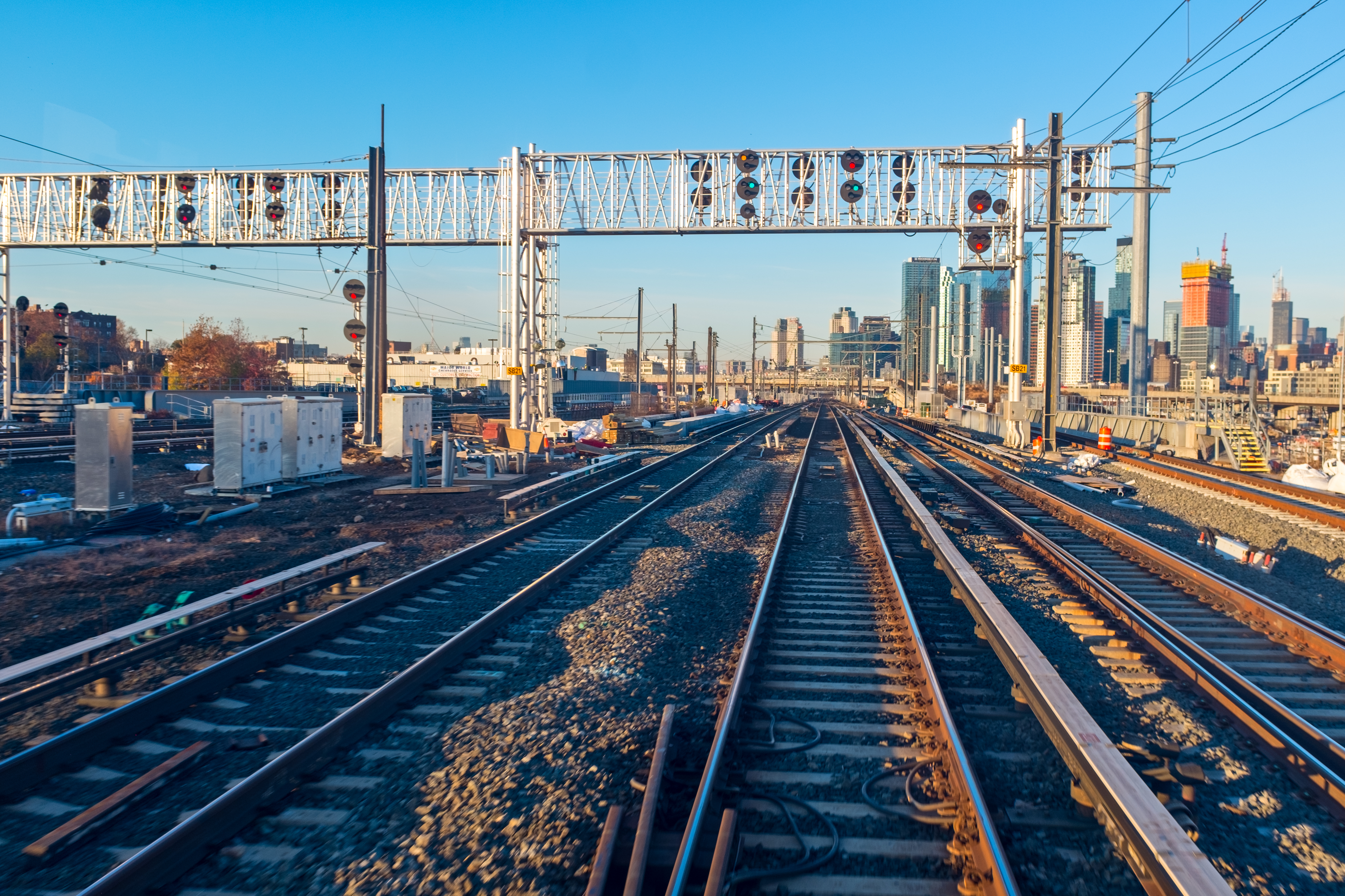 LIRR tracks entering Harold Interlocking. Just beyond the signal gantry, the tracks will join with the line from the Hells gate Bridge (note overhead catenary)